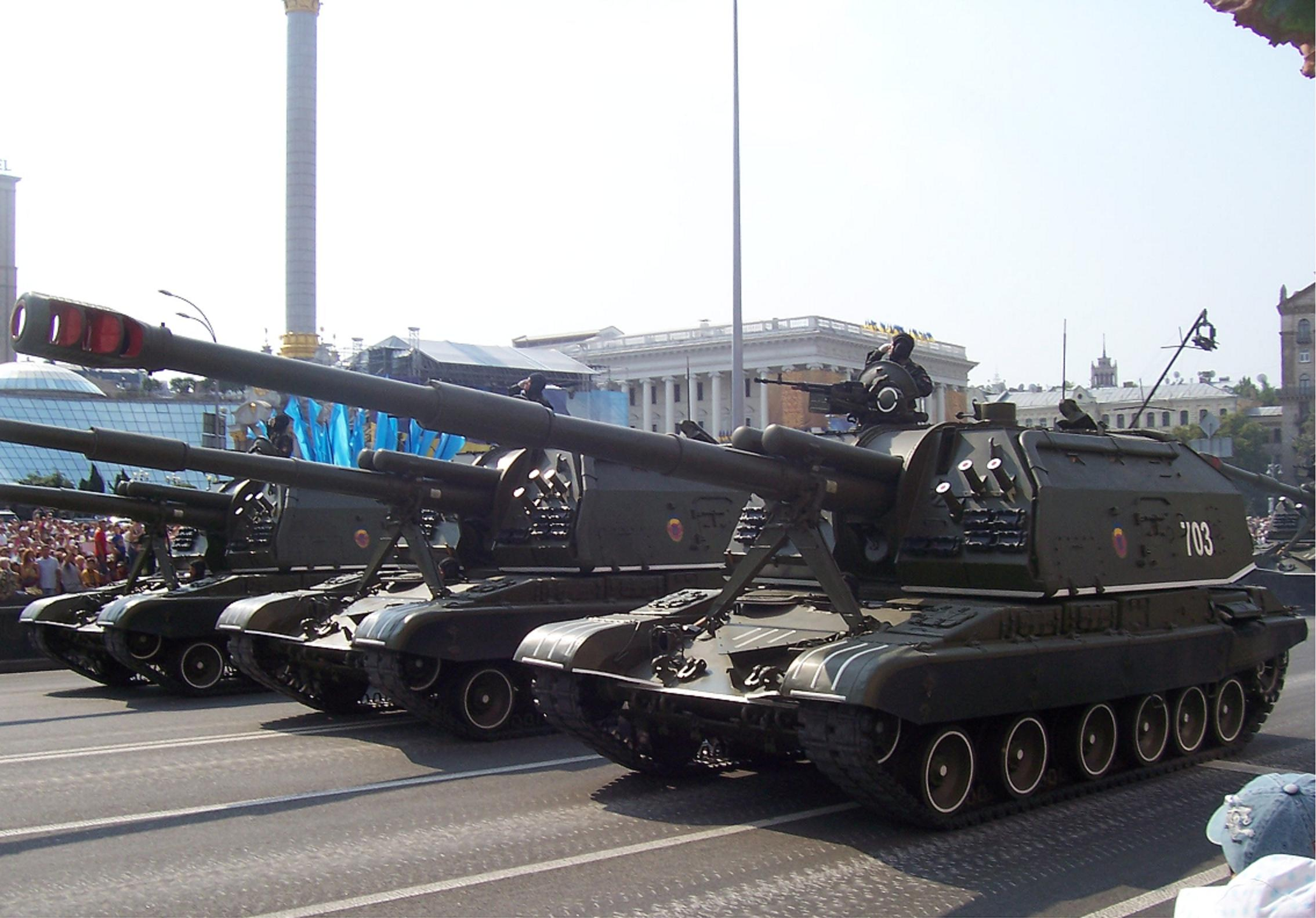 Ukrainian 2S19 Msta self-propelled 152 mm howitzers on parade in Kiev.